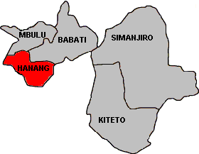 Created by Andrew Coe